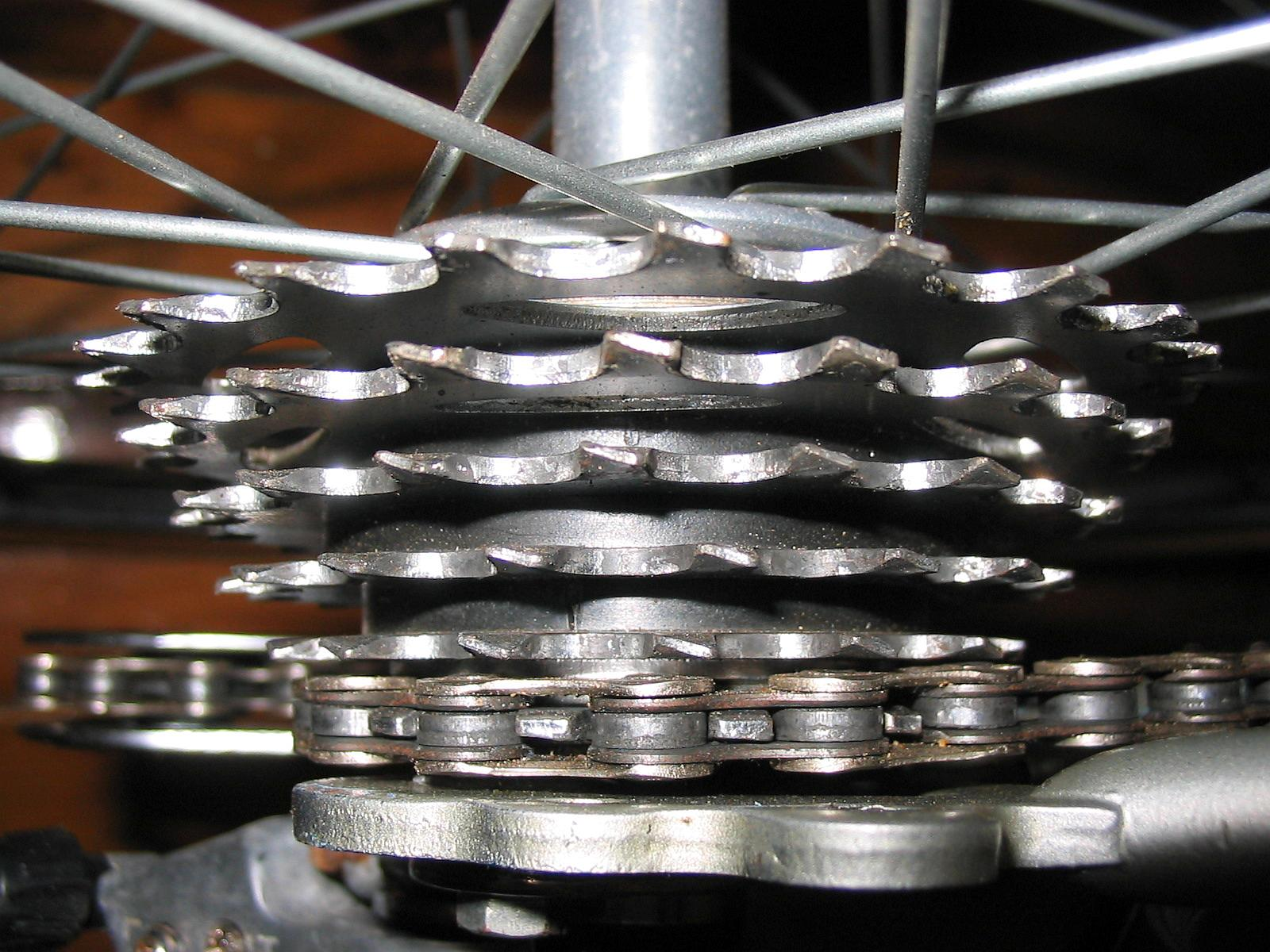 Shimano UG teeth